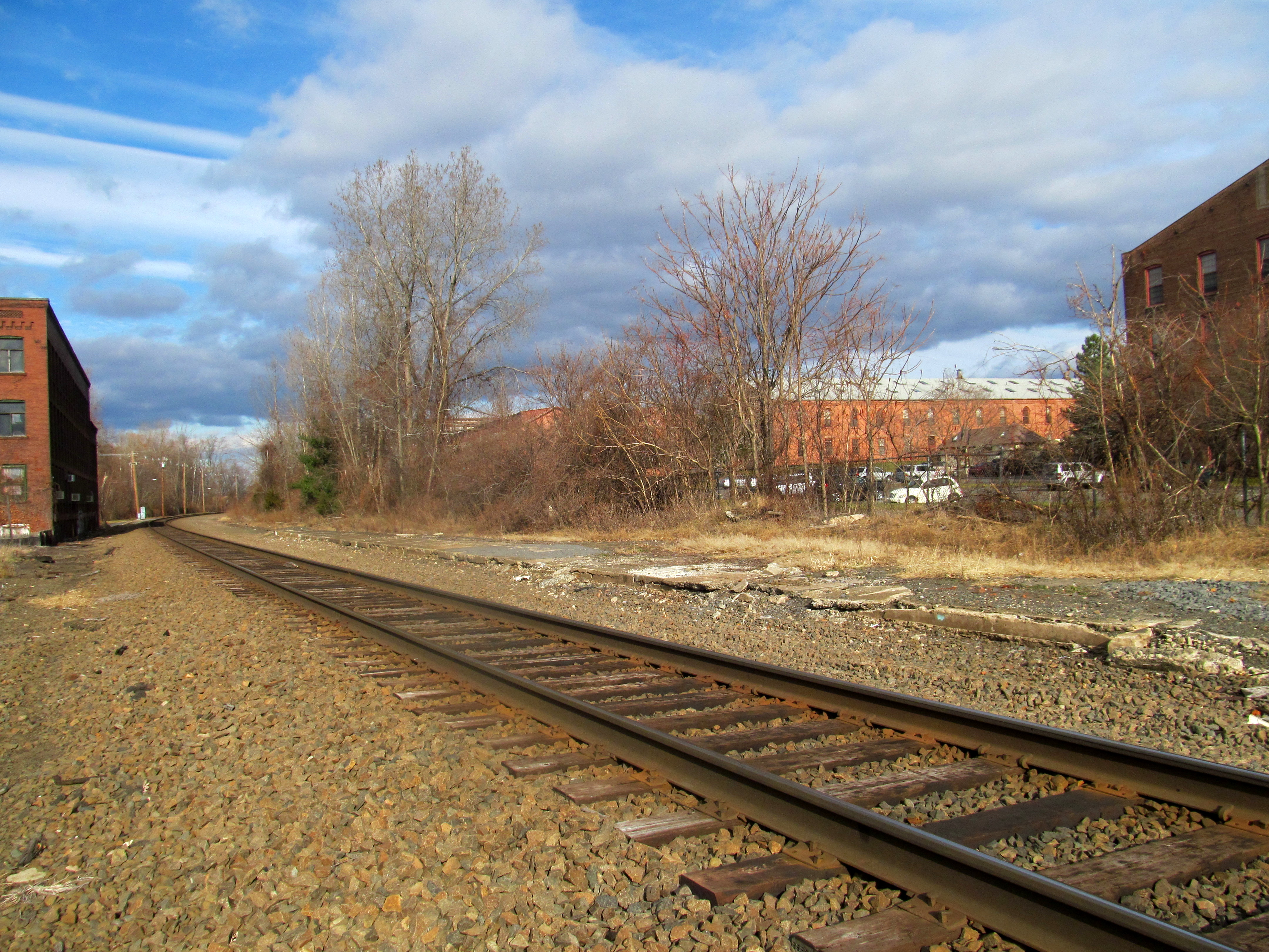 Former Thompsonville station in December 2015